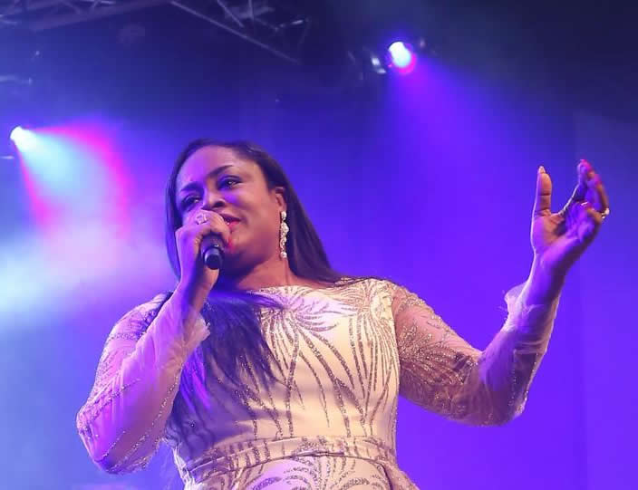 This photograph was taken at the Sinach Live in Concert, Mosaiek Theatre, Johannesburg in 2016